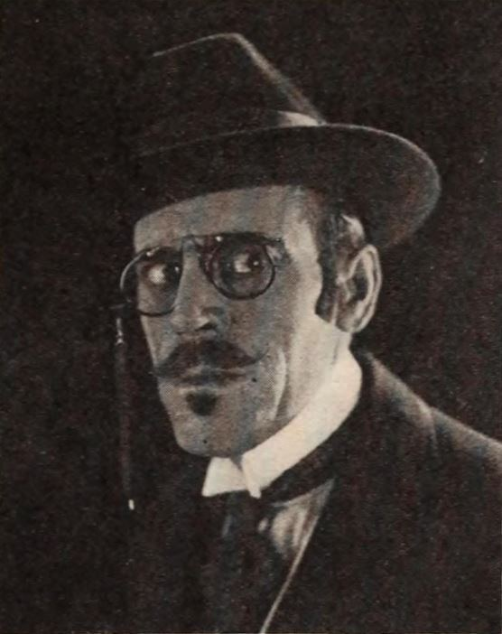 Still from the American serial film Fantômas (1920) with Edward Roseman, on page 77 of the November 13, 1920 Exhibitors Herald.